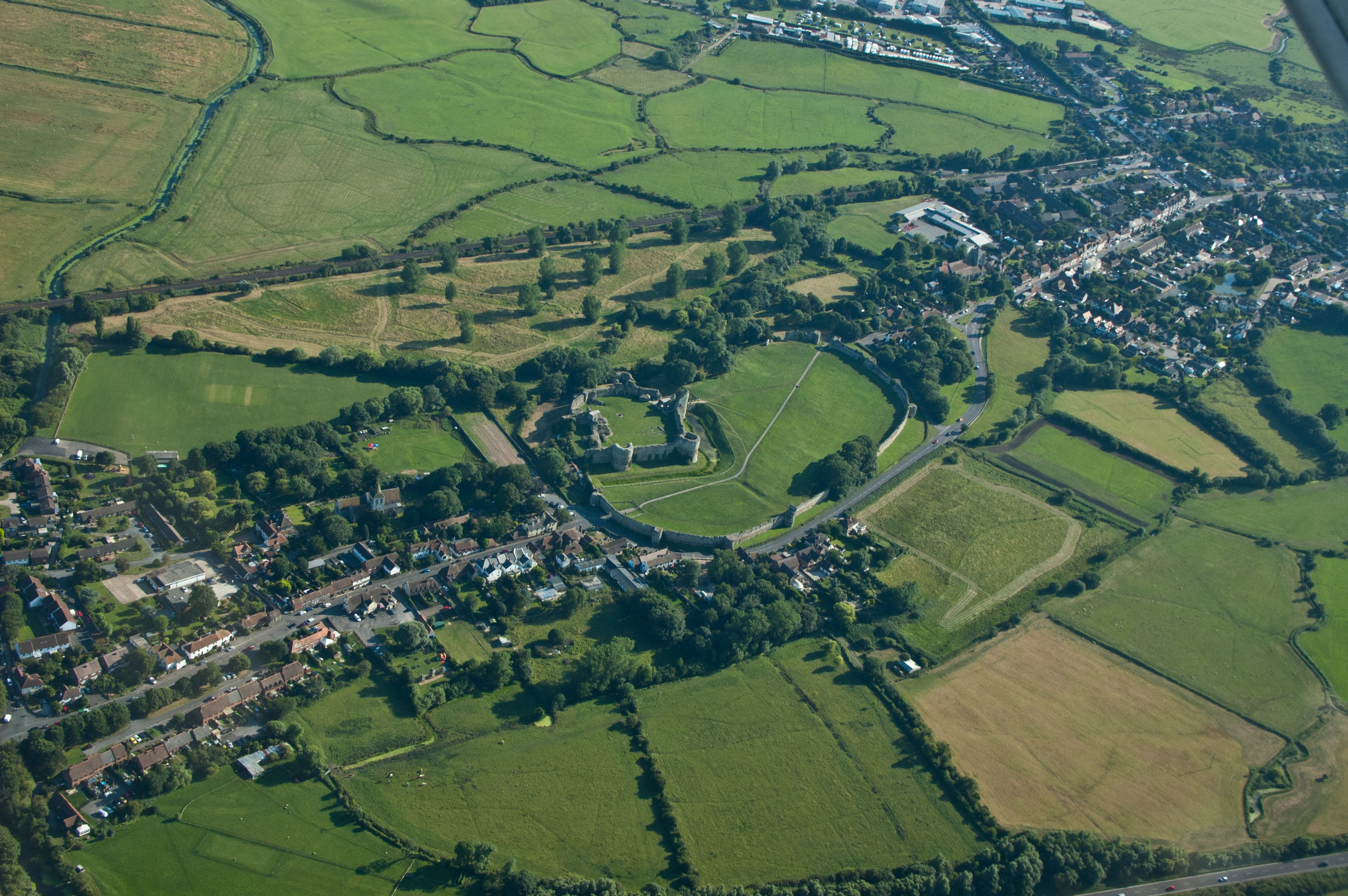 Aerial photograph of Pevensey Castle and the surrounding ruins of Roman Anderitum. A Saxon Shore Fort, Norman Defences, A Medieval Enclosure Castle, And Later Associated Remains